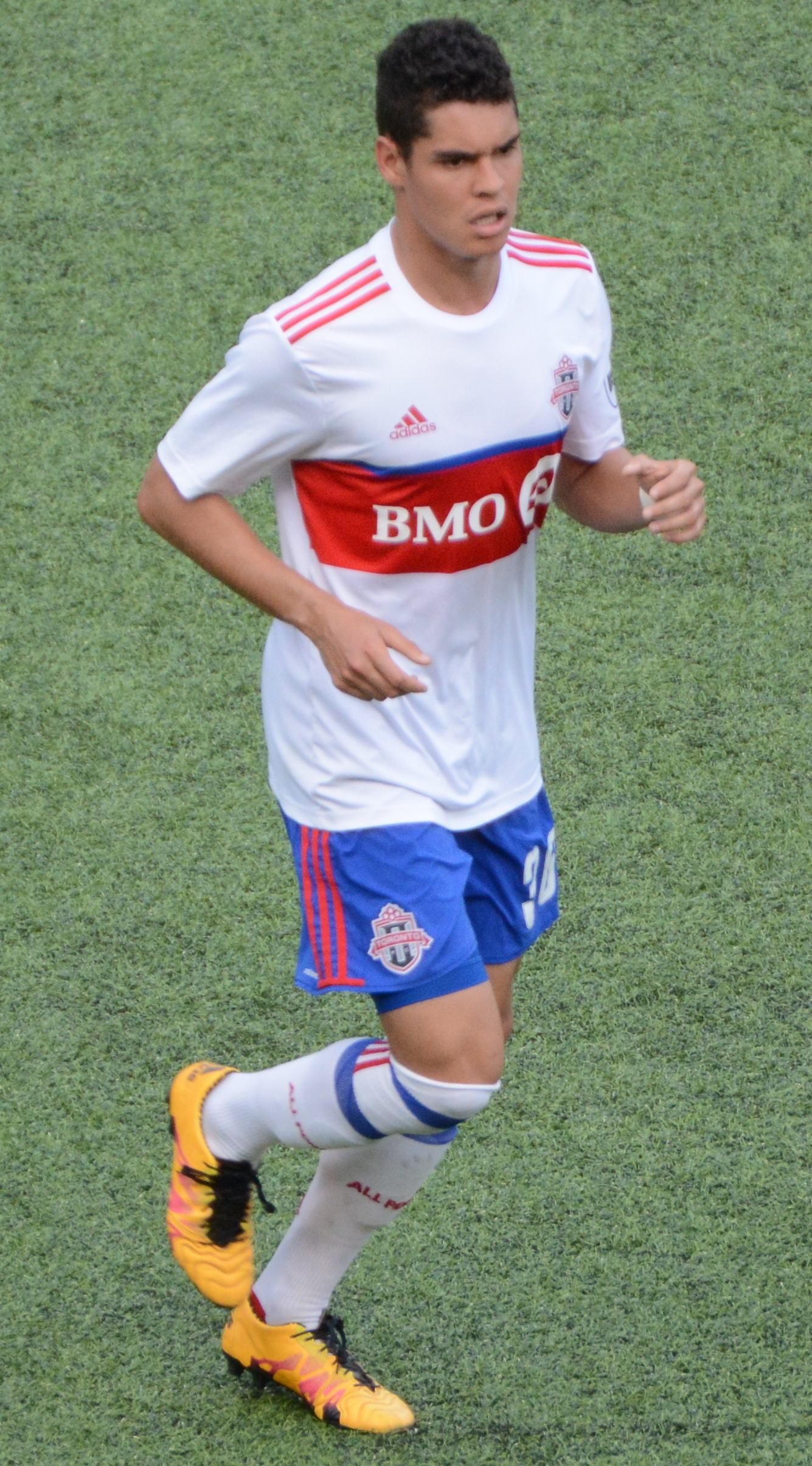 Brian James Taken during a match between FC Cincinnati and Toronto FC II at Nippert Stadium in Cincinnati, USA on May 27, 2017.